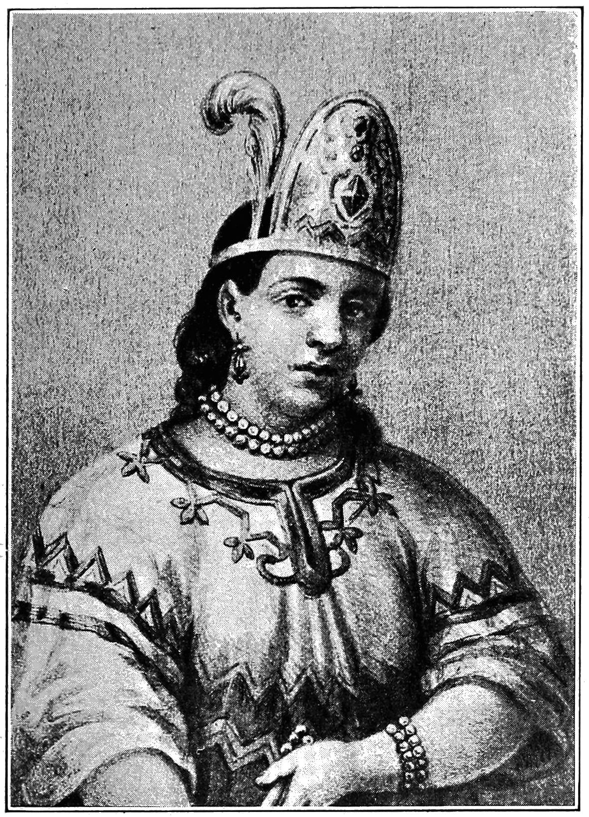 Donna Marina (La Malinche)